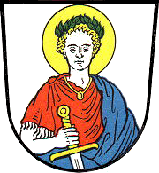 Coat of Arms of Belecke